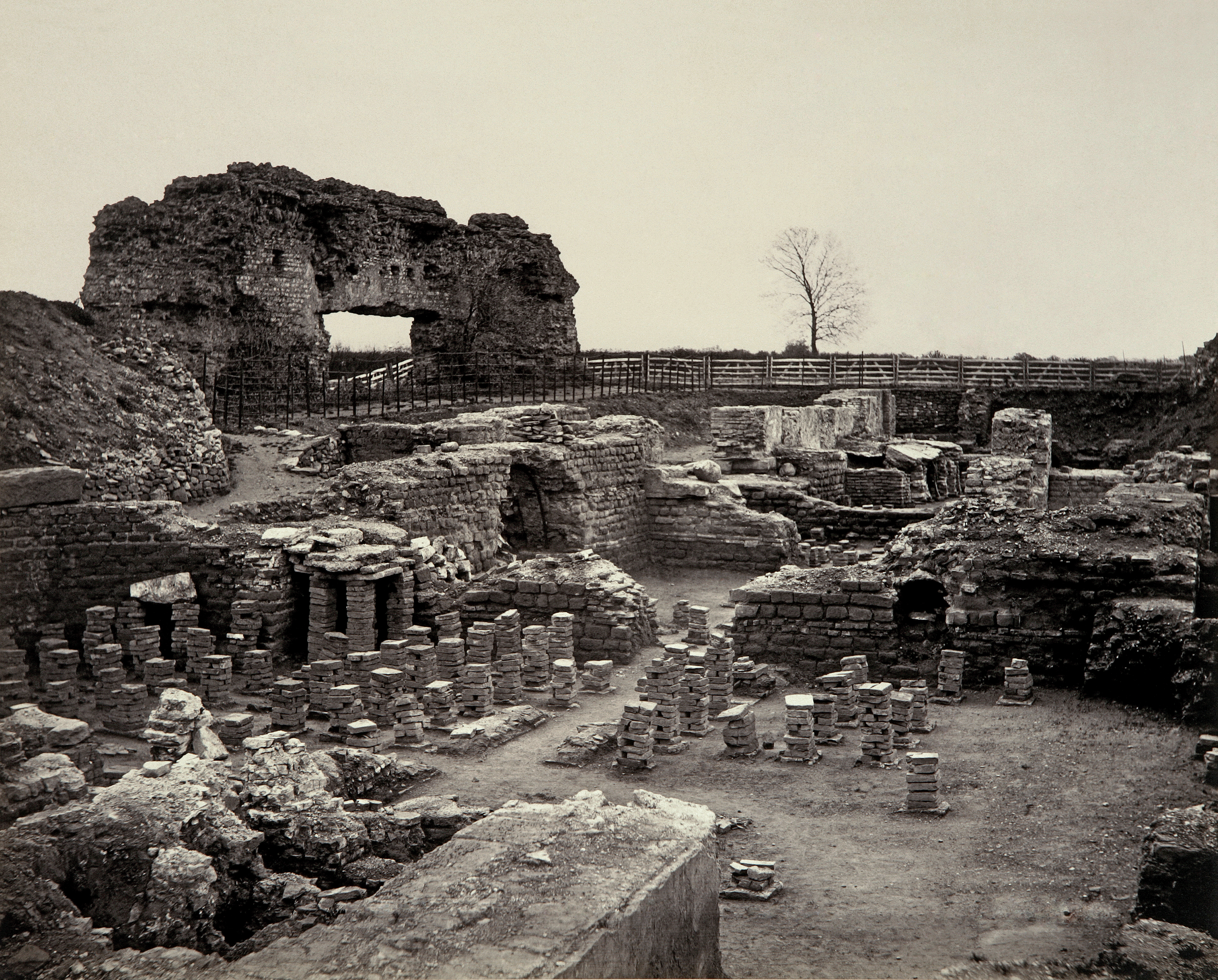 Excavation at Uriconium by Francis Bedford